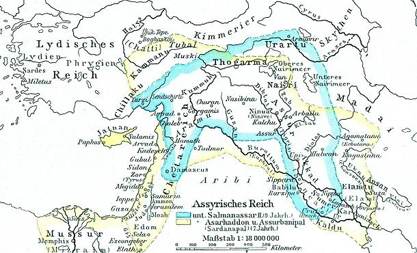 Assyrian Empire from: Putzgers Historischer Schul-Atlas, 39. Auflage. 1917. Tafel 2b. Blue: Under Salmanassar II (9th century BC). Yellow: Under Asharhaddon and Assurbanipal (Sardanapal) (7th century BC).